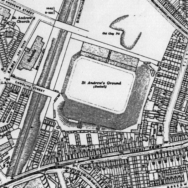 An Ordnance Survey map from 1913 showing St Andrew's stadium, the home ground of Birmingham City F.C., built in 1906